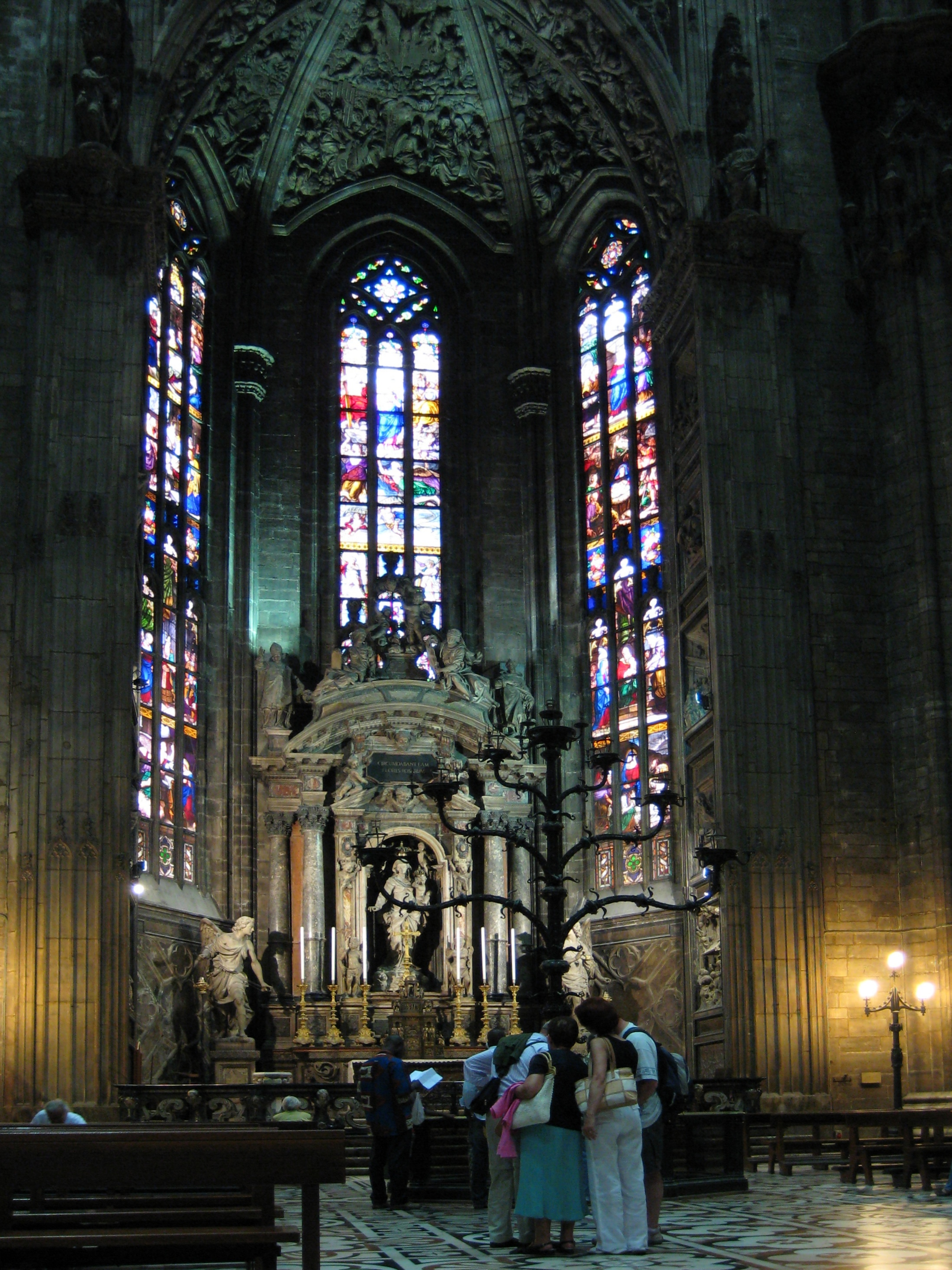 Interior of the Milan Cathedral, left transept